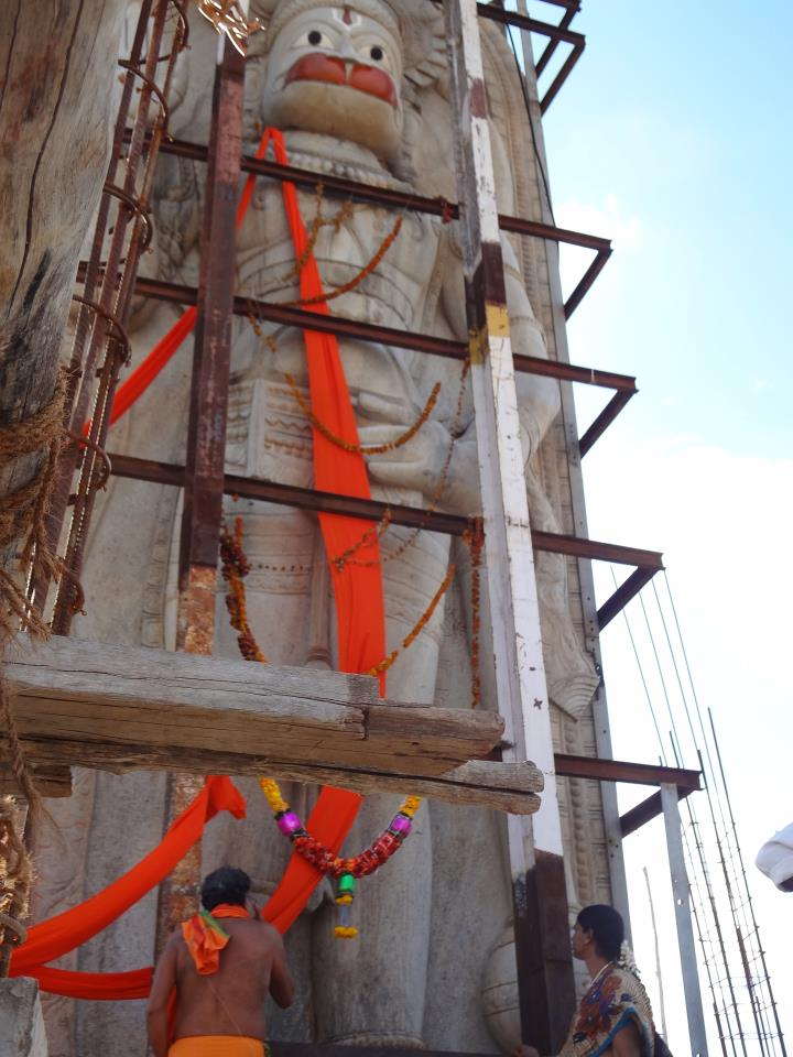 39 Ft Single stone Hanuman statue, located 18 KM from anantapur, Andhra Pradesh, on NH-7 towards Bangalore.